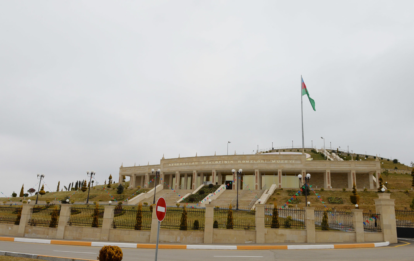 As part of a visit to Goygol, Ilham Aliyev attended the opening of a Flag Square Complex